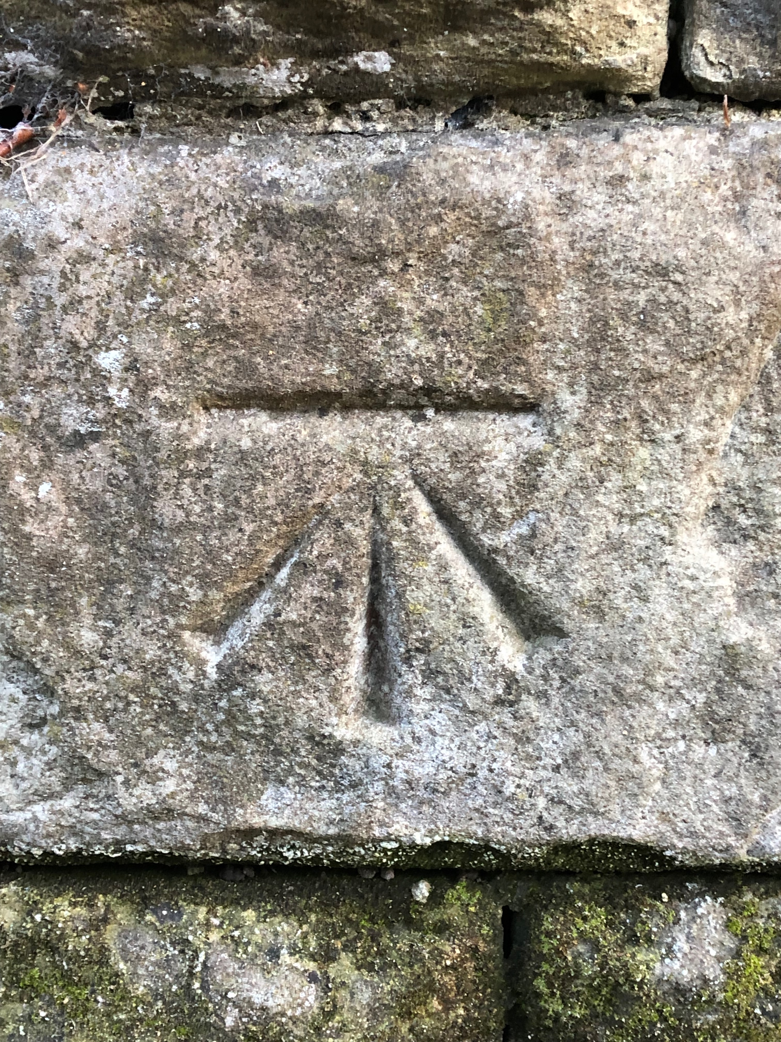 CUT MARK: WALL NO 10 ROYAL AVE 2.4M W WALL JUNC N FACE (ODN 49.7678m, AGL 0.3m).